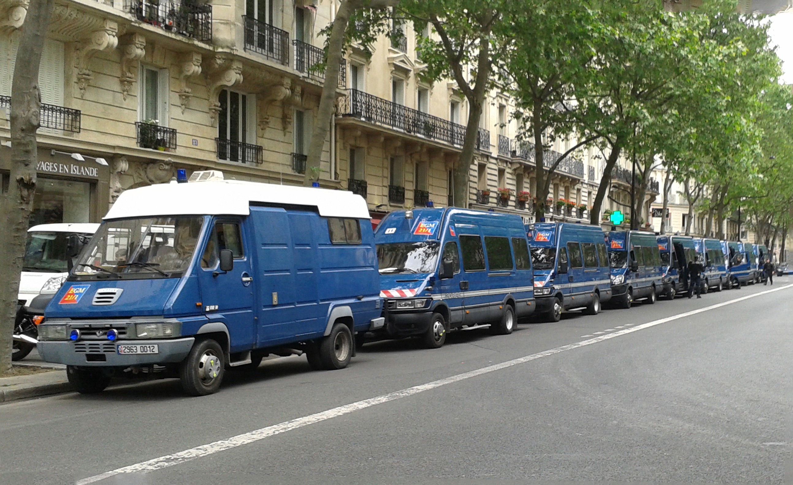 Gendarmerie mobile escadron (squadron) parked near a demonstration in Paris - May 2016